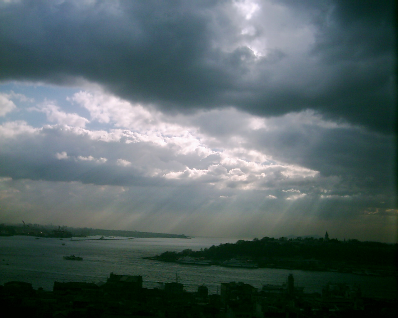 Picture taken from Deutsche Schule Istanbul, Bosporus view ?